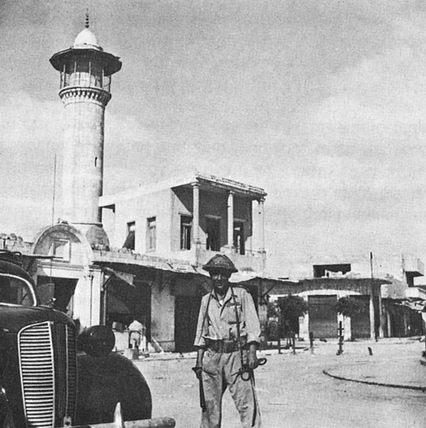 An Israeli soldier in central Lydda in July 1948. This work or image is now in the public domain because its term of copyright has expired in Israel. According to Israel's copyright statute from 2007 (translation), a work is released to the public domain on 1 January of the 71st year after the author's death (paragraph 38 of the 2007 statute) with the following exceptions: A photograph taken on 24 May 2008 or earlier — the old British Mandate act applies, i.e. on 1 January of the 51st year after the creation of the photograph (paragraph 78(i) of the 2007 statute, and paragraph 21 of the old British Mandate act). If the copyrights are owned by the State, not acquired from a private person, and there is no special agreement between the State and the author — on 1 January of the 51st year after the creation of the work (paragraphs 36 and 42 in the 2007 statute). See also category: PD Israel & British Mandate.